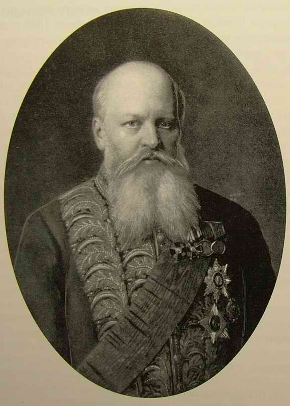 Solsky Dmitry Martynovitsch (1833-1910) - Graf, Ministr of Russia (1878-1889)